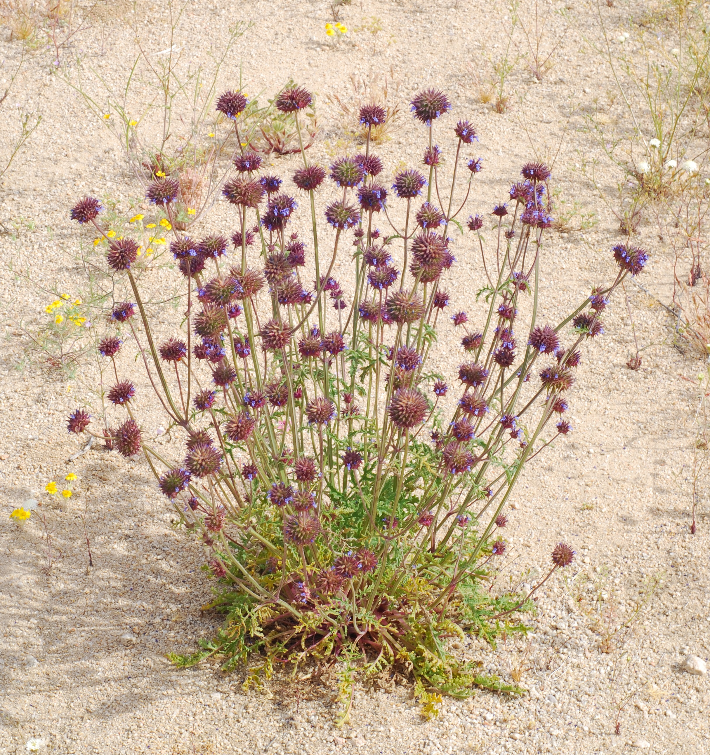 Flowering plants of Joshua Tree National Park: Desert chia (Salvia columbariae).